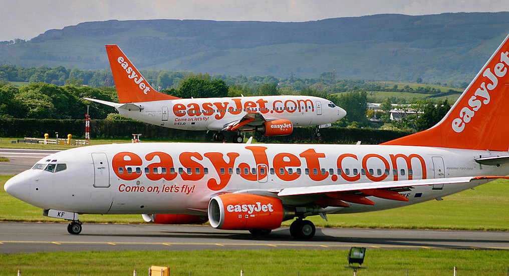 This image was taken by Martin J.Galloway. Donated from the British Photo Encyclopedia Dotonegroup : talk. A pair of easyJet Boeing 737's at Glasgow International Airport, Scotland.